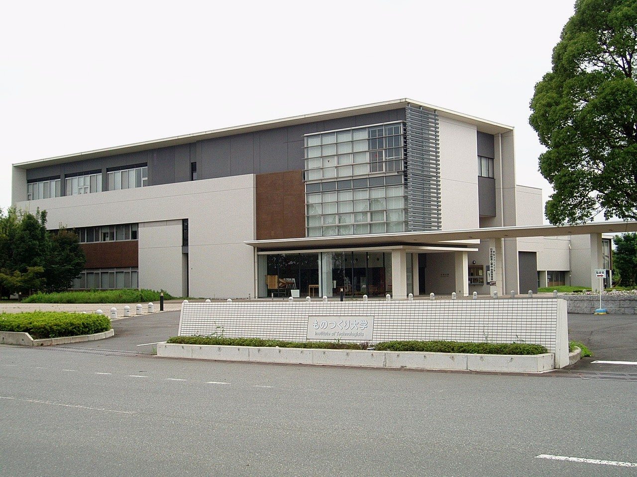 The main entrance of the Institute of Technologists, located in Gyoda, Saitama Prefecture, Japan.